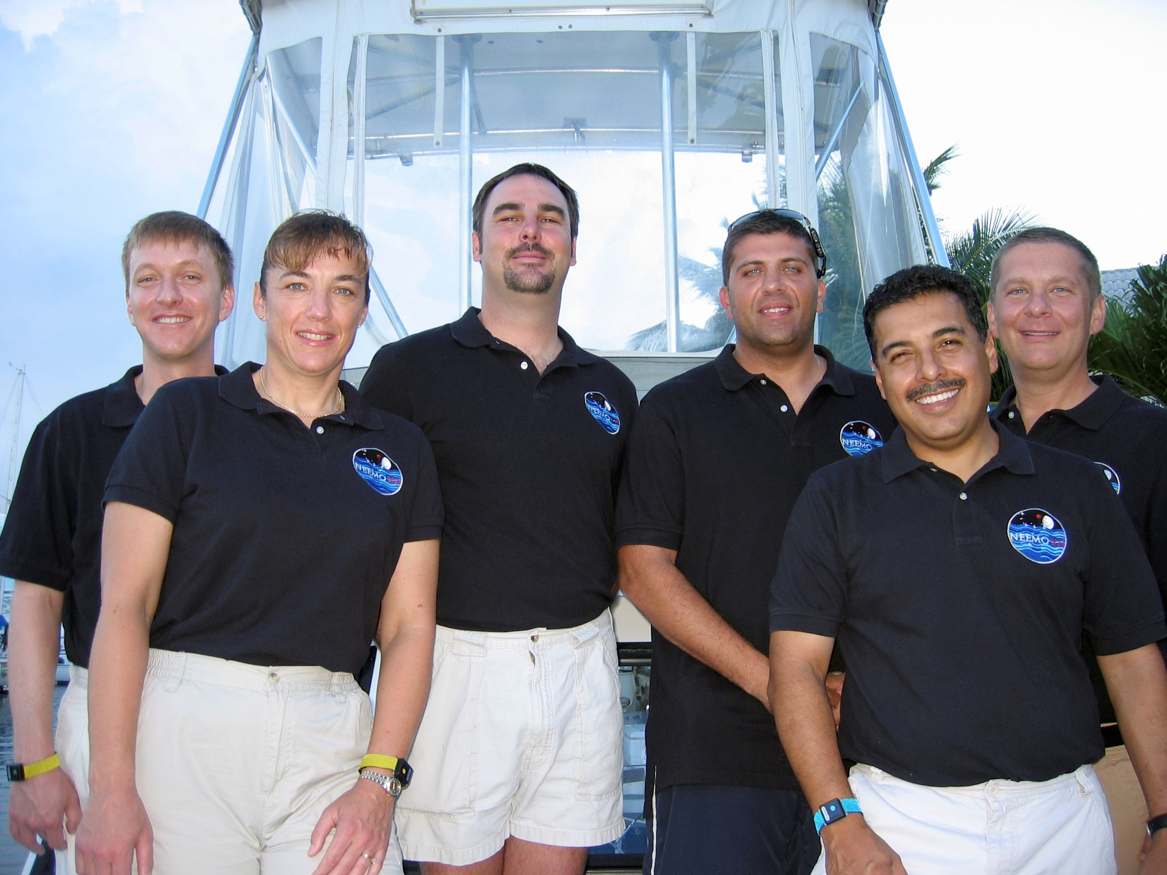 NEEMO 12 crewmembers and habitat technicians take a moment to pose for a group photo during preparations for their stay inside the Aquarius Underwater Laboratory off the coast of Key Largo, Florida for the 12th NASA Extreme Environment Mission Operations (NEEMO) project. From the left (front row) are astronaut/aquanauts Heidemarie M. Stefanyshyn-Piper (team lead) and José M. Hernández. From the left (back row) are NASA flight surgeon Josef F. Schmid; habitat technicians James Talacek and Dominic Landucci; and Dr. Timothy J. Broderick of the University of Cincinnati. The crew is spending 12 days, May 7-18, on an undersea mission aboard the National Oceanic and Atmospheric Administration's (NOAA) Aquarius Underwater Laboratory, which is operated by the University of North Carolina at Wilmington and located off the coast of Key Largo, Florida.